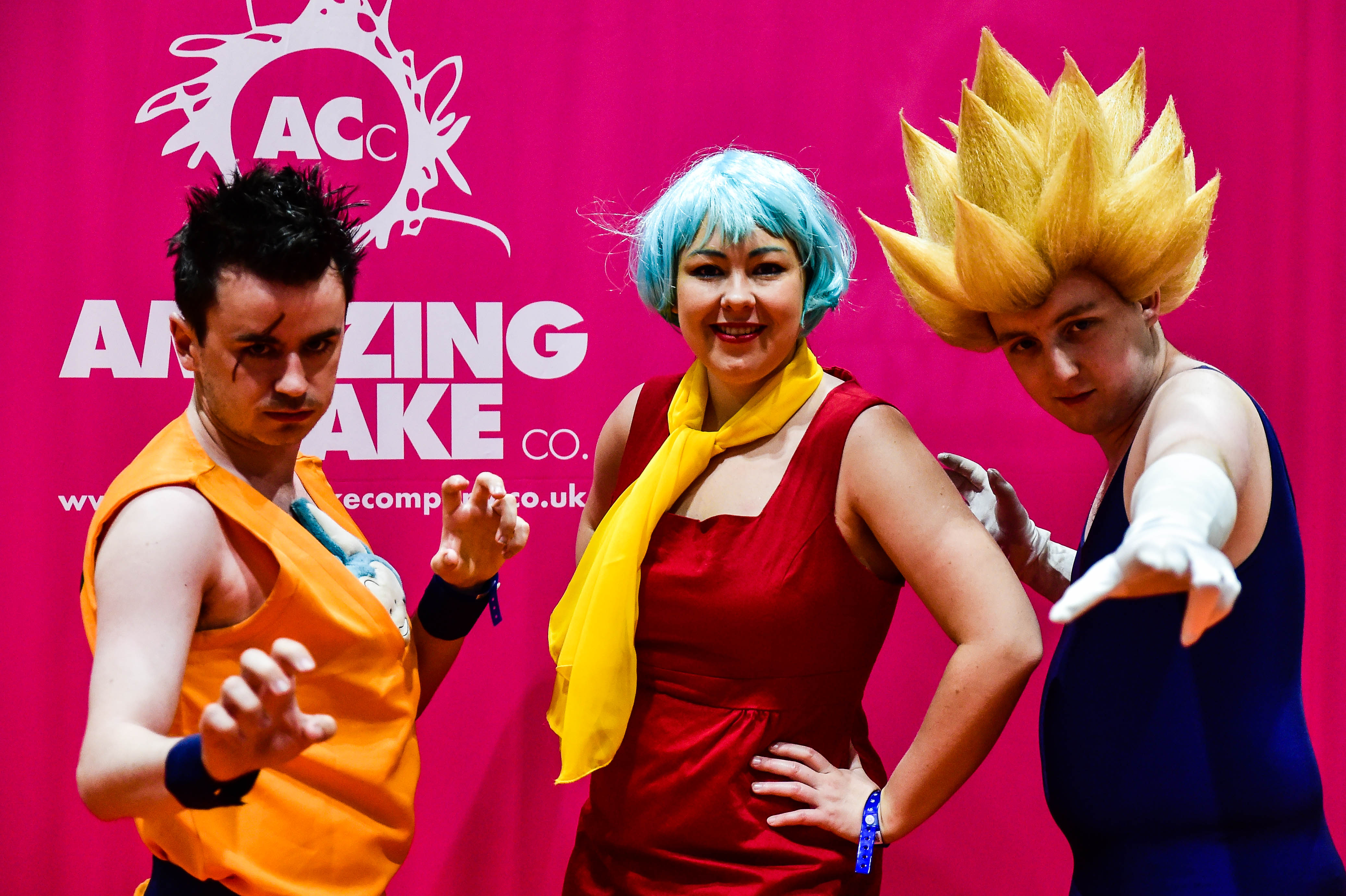 Cosplay at MCM London Comic Con 2015.